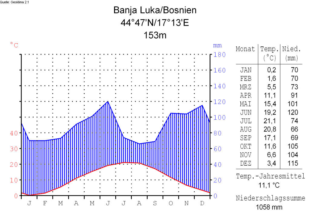 climate chart in the format by Walter and Lieth, metric, °Celsisus and millimeters, made with Geoklima 2.1